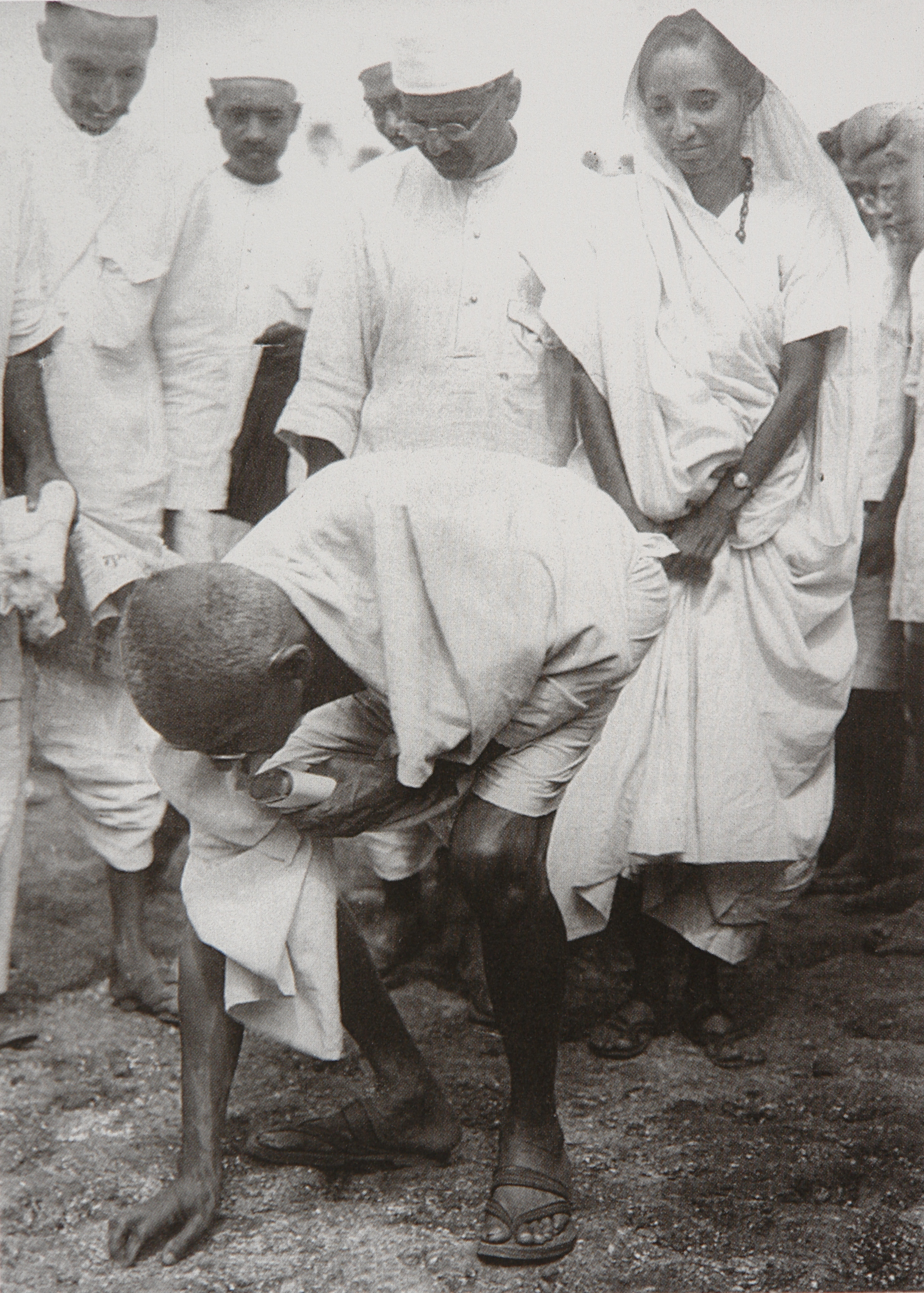 Gandhi at Dandi, South Gujarat, picking salt on the beach at the end of the Salt March, 5 April 1930. Behind him is his second son Manilal Gandhi and Mithuben Petit.